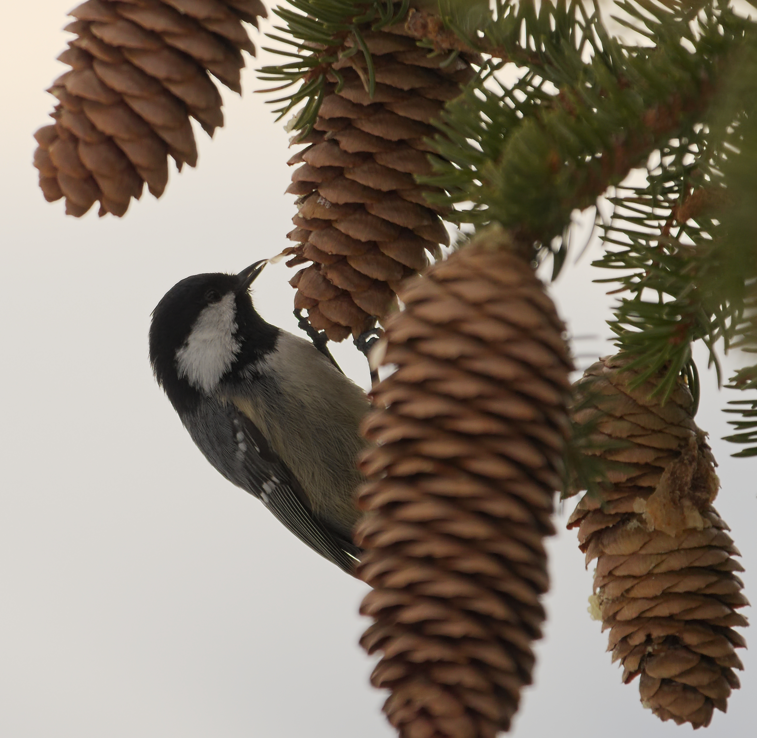 Paradiski, Coal tit - Periparus ater. Taken in La Plagne, Champagny-en-Vanoise, Savoie, France.